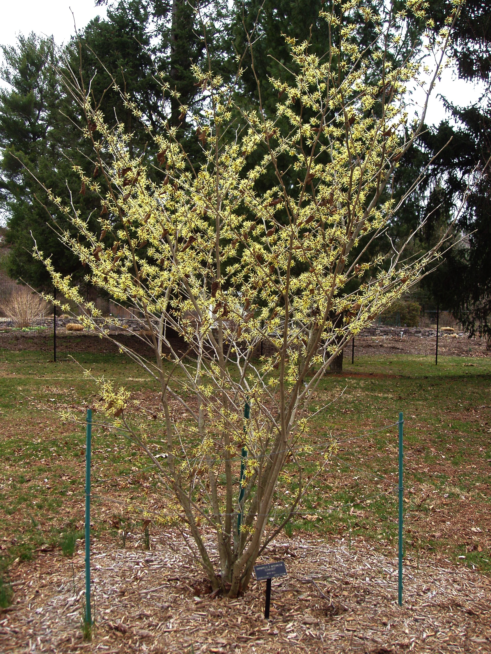 Hamamelis 'Sunburst' flowering in Colonial Park Arboretum and Gardens, East Millstone, NJ. Photograph taken by me, March 2006.